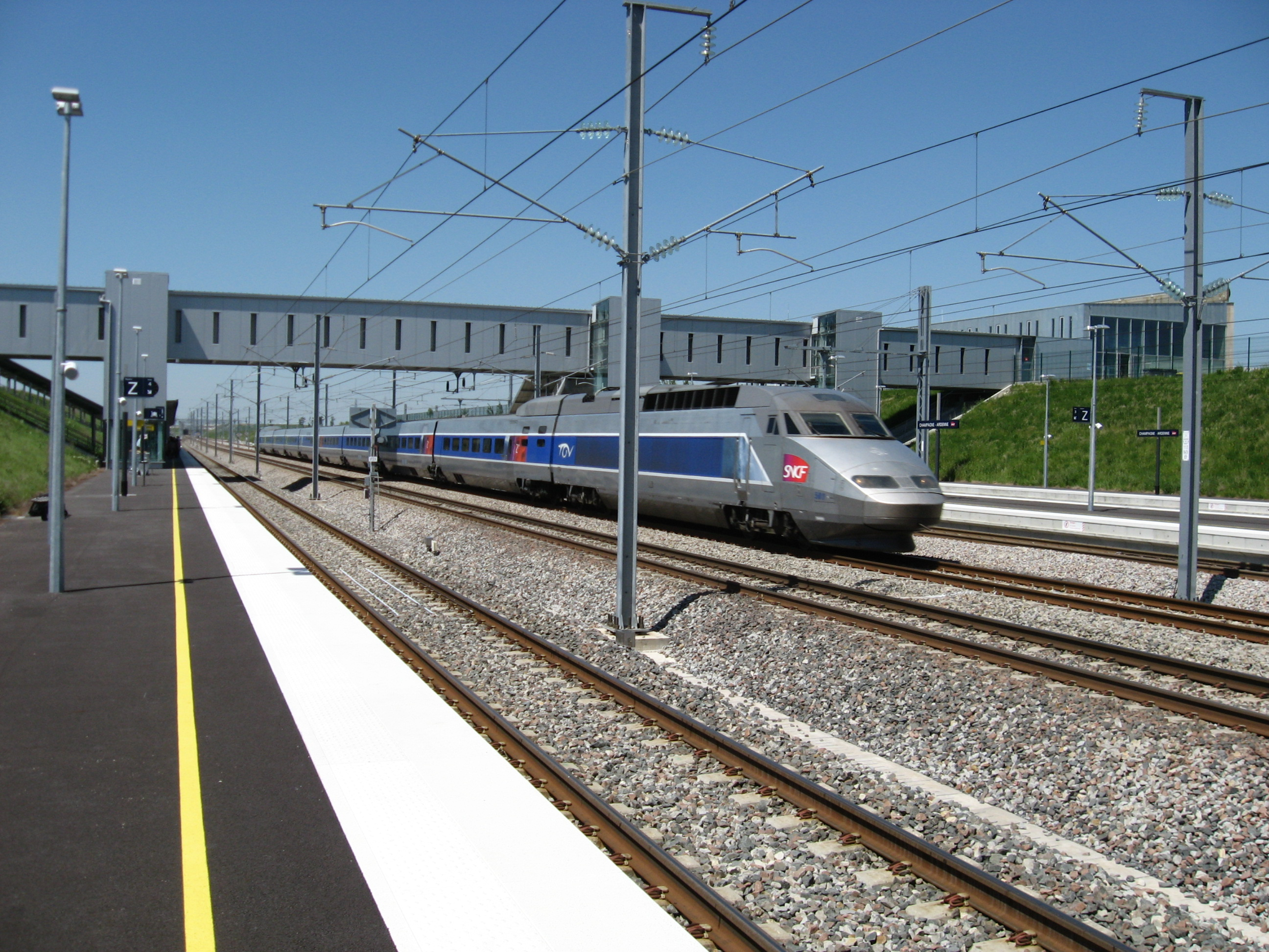 TGV traveling through the Champagne Ardenne TGV station without stopping.